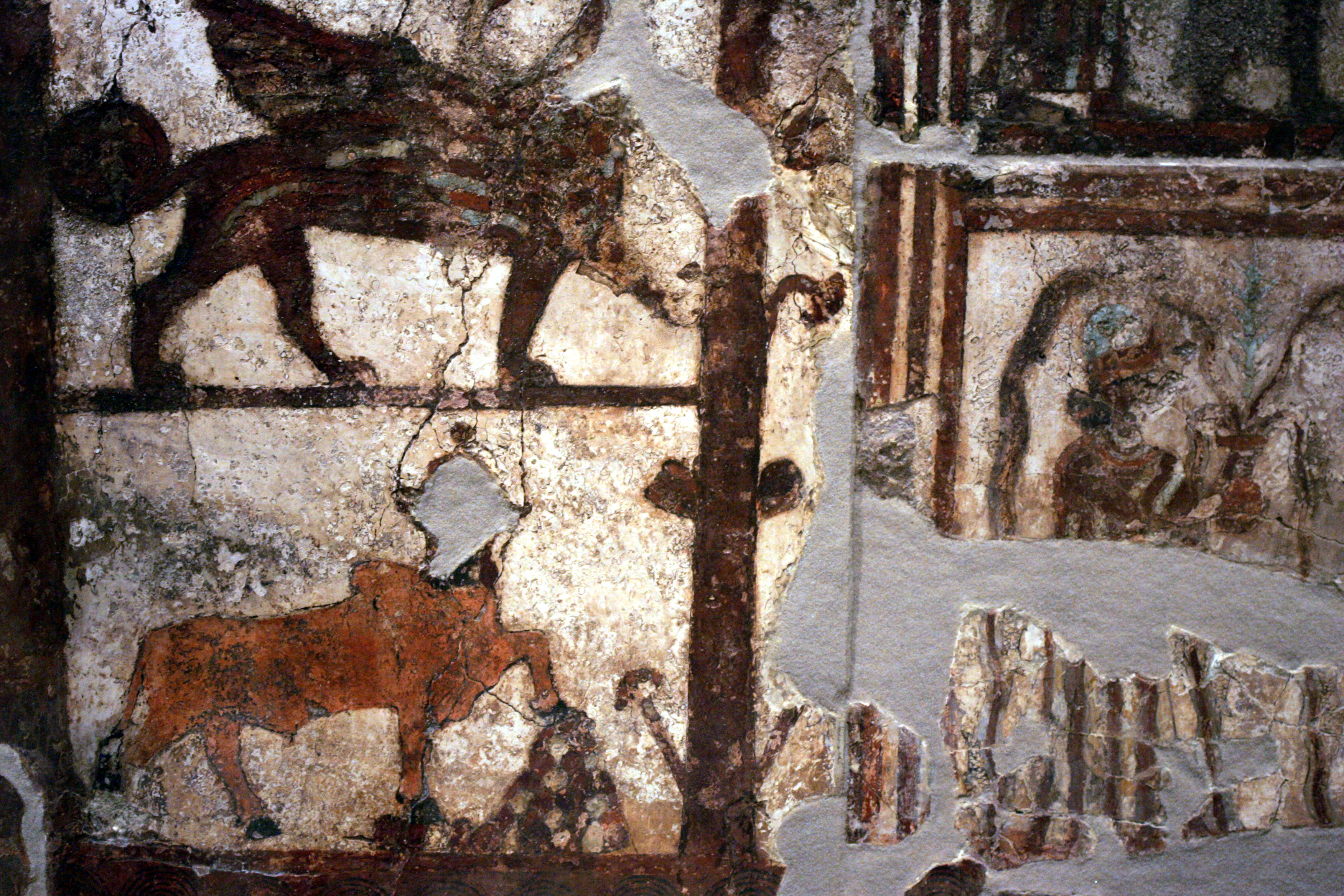 ArtistUnknownDescription Fresco of the investiture of Zimri Lim [1] 19th century BC, Royal palace of Mari Current location (Inventory)Louvre Museum Native nameMusée du LouvreLocationParisCoordinates48° 51′ 37″ N, 2° 20′ 15″ E Established1793Website control : Q19675 VIAF: 257711507 ISNI: 0000 0001 2260 177X ULAN: 500125189 LCCN: n80020283 NLA: 35912436 WorldCat Richelieu Rez-de-chaussée Mésopotamie, IIe et Ier millénaires avant J.-C. Salle 3Accession numberAO 19826Credit lineFound by A. Parrot, 1935 - 1936Source/PhotographerRama Fresco of the investiture of Zimri Lim [1] 19th century BC, Royal palace of Mari